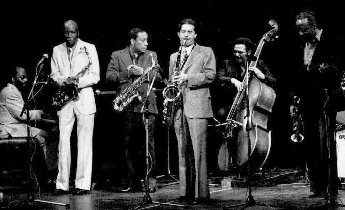 From left to right: Junior Mance, Eddie Vinson, Lou Donaldson, Scott Hamilton, Martin Rivera, Harry Edison in Paris, France